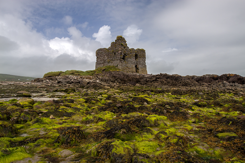 Castles of Munster: Ballinskelligs, Kerry A 16c two storey unvaulted MacCarthy tower on the seashore overlooking Ballinskelligs Bay.